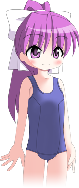 Image created for decorative purposes for User:Xzit